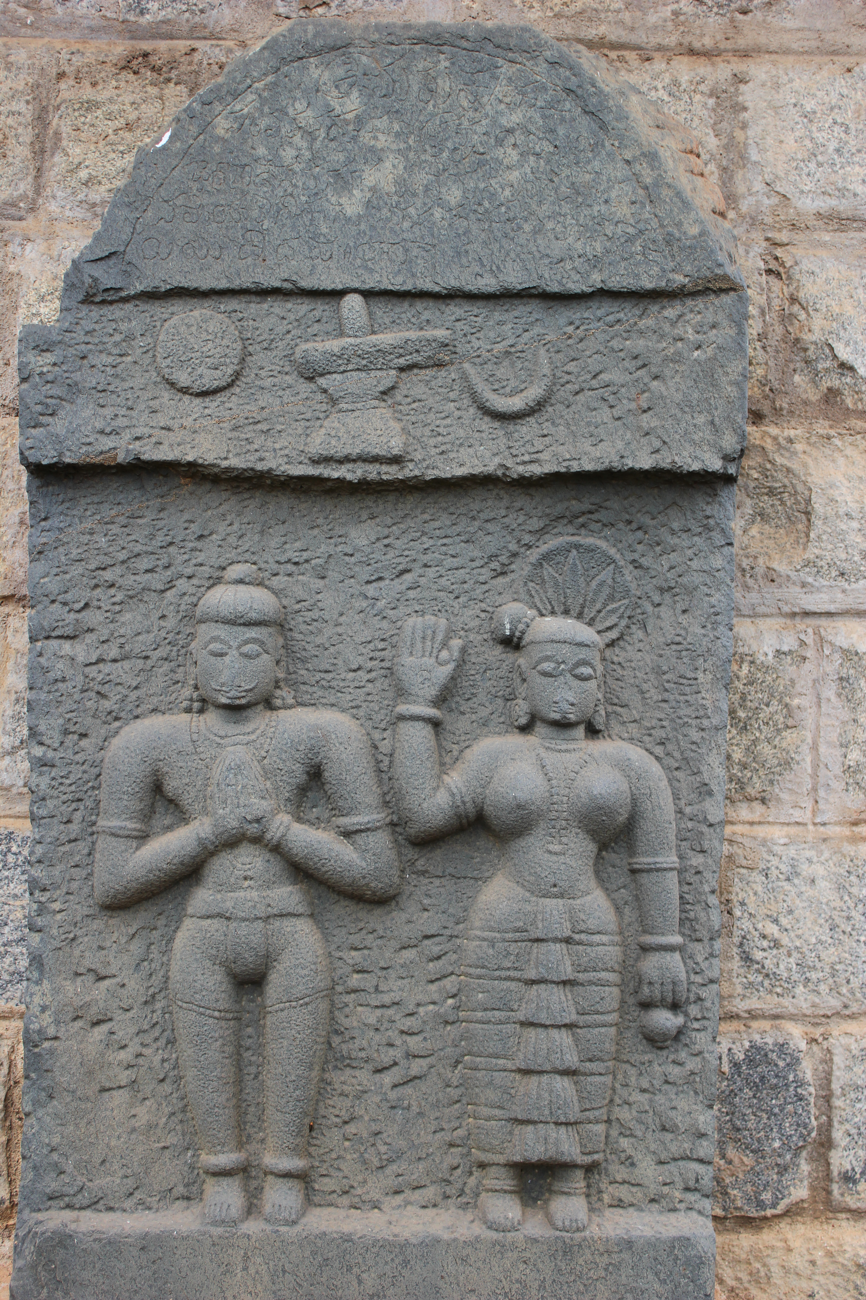 This photograph of a Sati stone (satigal) of 1206 A.D. with old Kannada inscription was taken by me at the Kedareshvara temple (also spelt Kedaresvara or Kedareshwara) in Balligavi (also called variously as Belgami, Belligave, Balligamve and Ballipura in ancient inscriptions) in the Shimoga district of Karnataka state, India. Source: Mysore inscriptions, pg.113, Benjamin Lewis Rice, Director of Public Instruction, Mysore and Coorg, Printed at Mysore Government Press, Bangalore, 1879